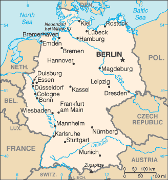 Map of Germany showing major cities and waterways